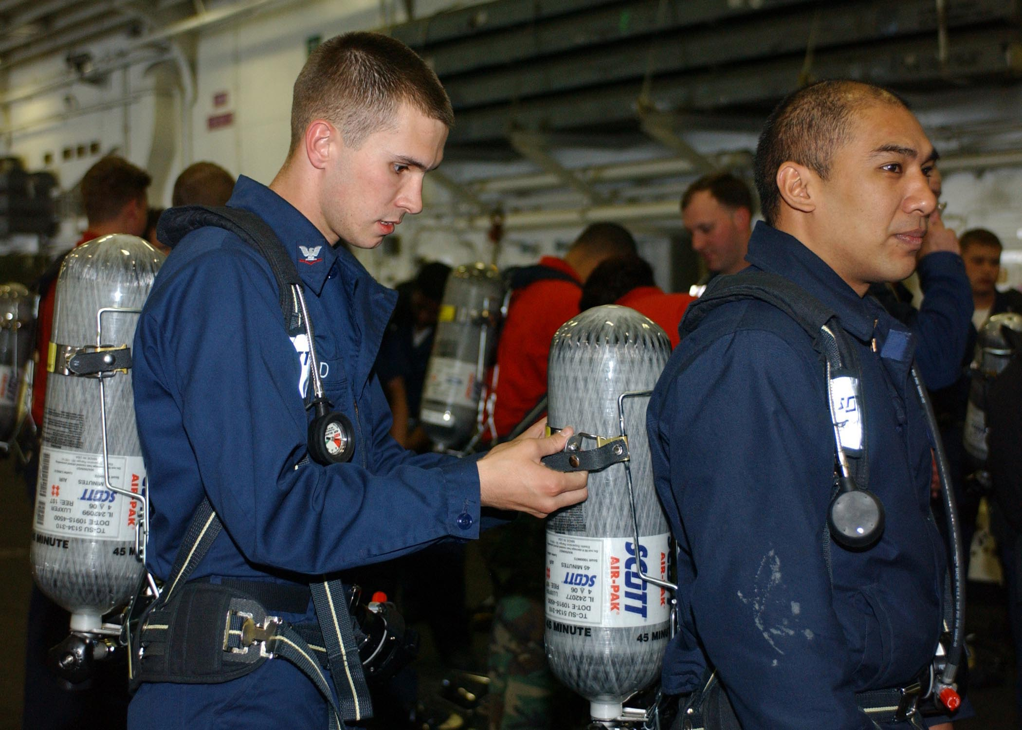 Pacific Ocean (June 8, 2006) - Electronics Technician 3rd Class Tyler Ward checks Electronics Technician 3rd Class Jay Juego's Self Contained Breathing Apparatus (SCBA) for proper operation aboard the amphibious assault ship USS Boxer (LHD 4). Boxer is actively transitioning to the SCBA in preparation for their Western Pacific deployment scheduled later this year. U.S. Navy photo by Photographer's Mate Airman Heather L. Hyatt (RELEASED)